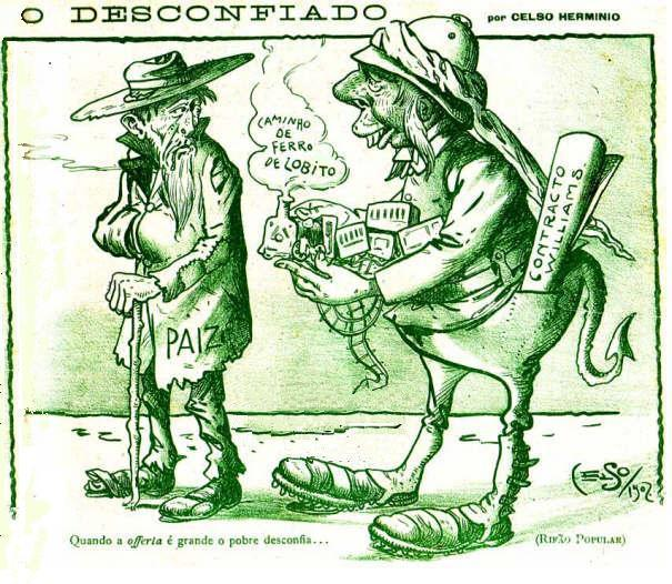 Caricature of the Scotish engineer and enterpreneur sir Robert Williams offering the Portuguese people a railway line in Angola, a parody of the 1902 concession awarded to a British company by the Portuguese government.